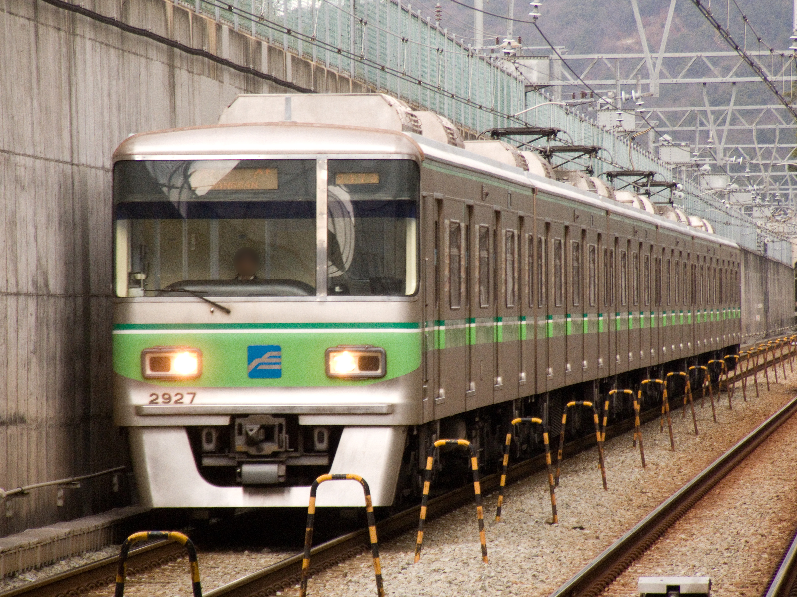 BTC Class 2000 27th unit